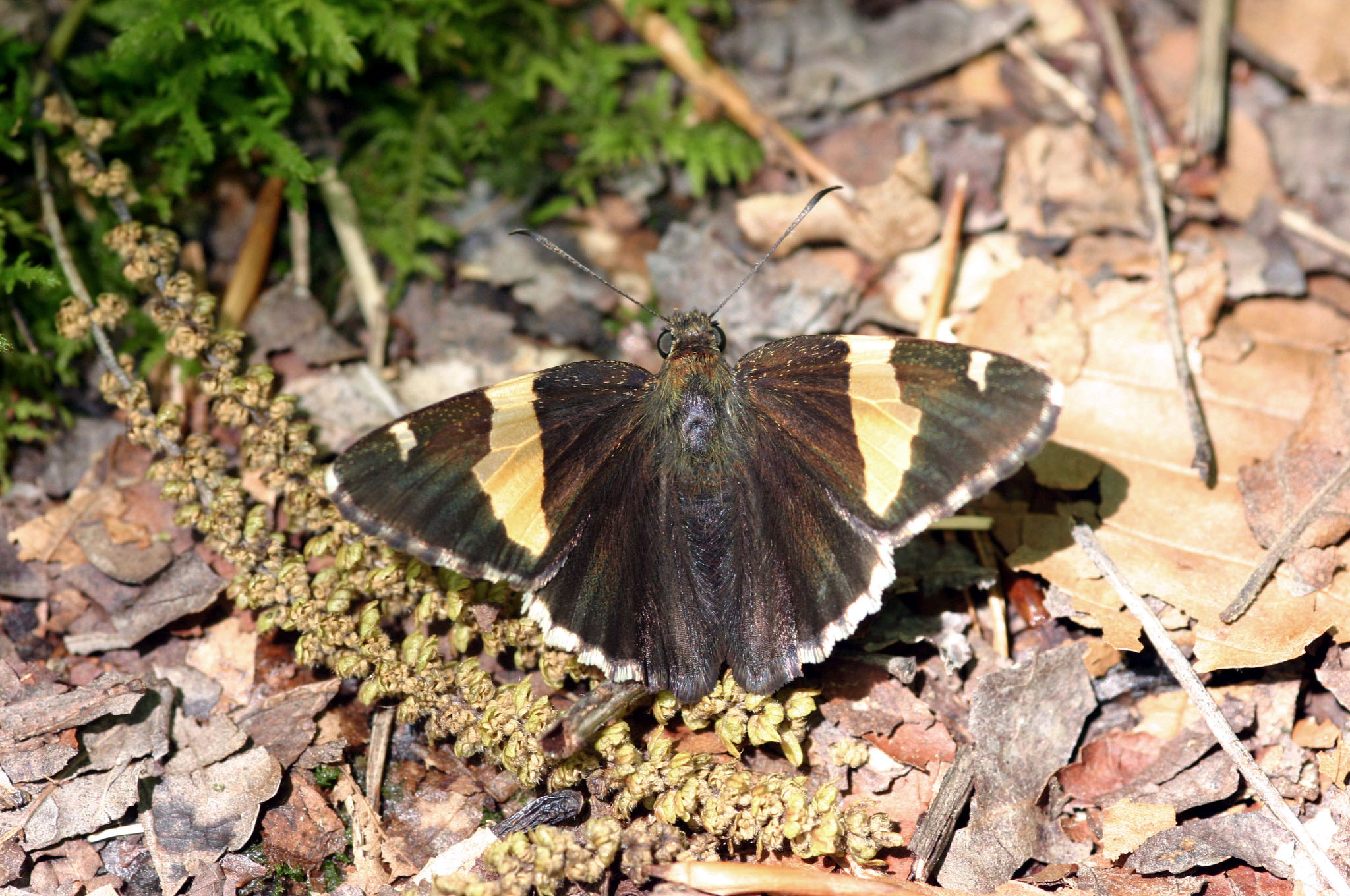 Vitaly Charny